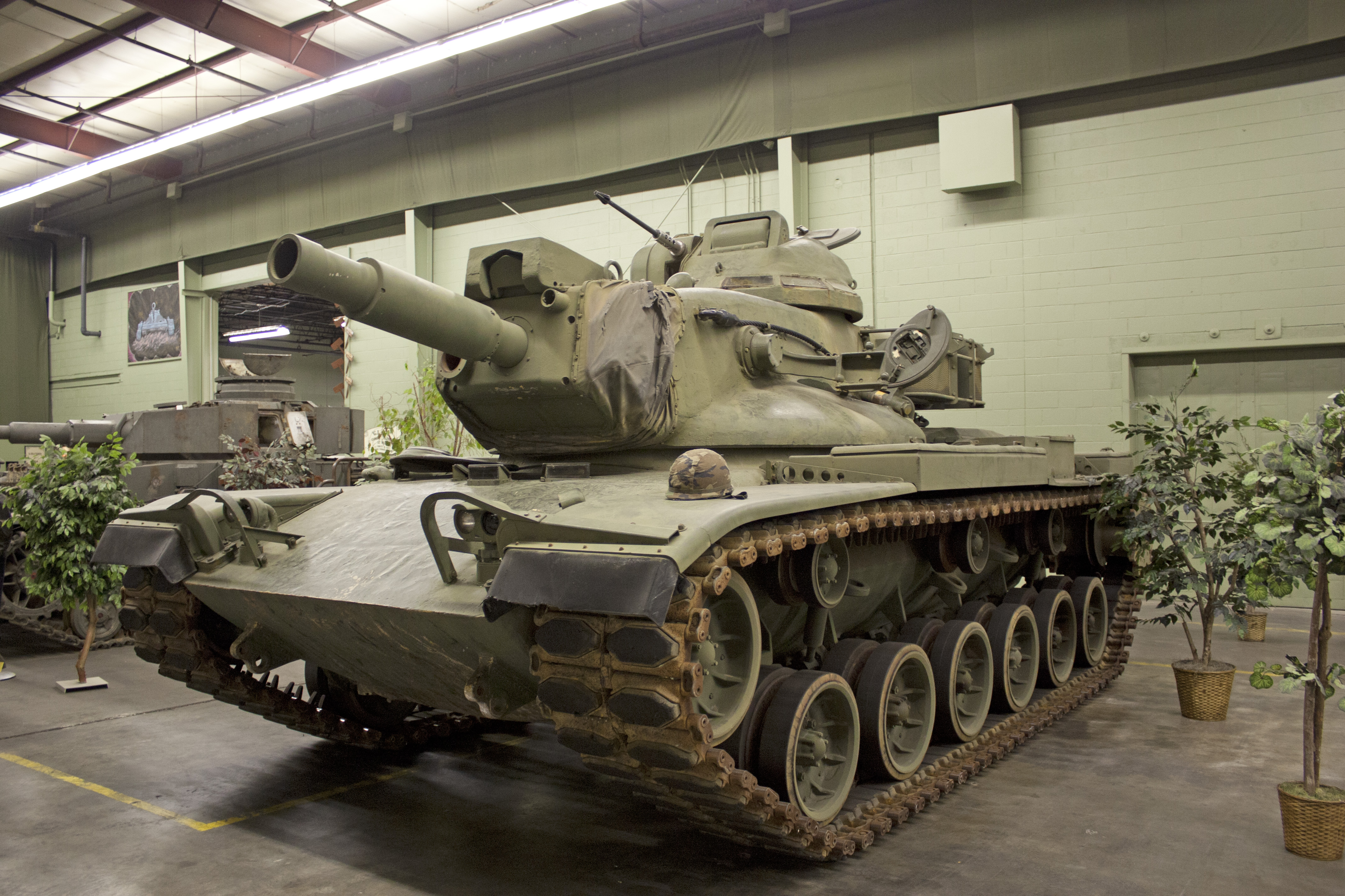 Strv 74 tank at the American Armoured Foundation Museum in Danville, Virginia